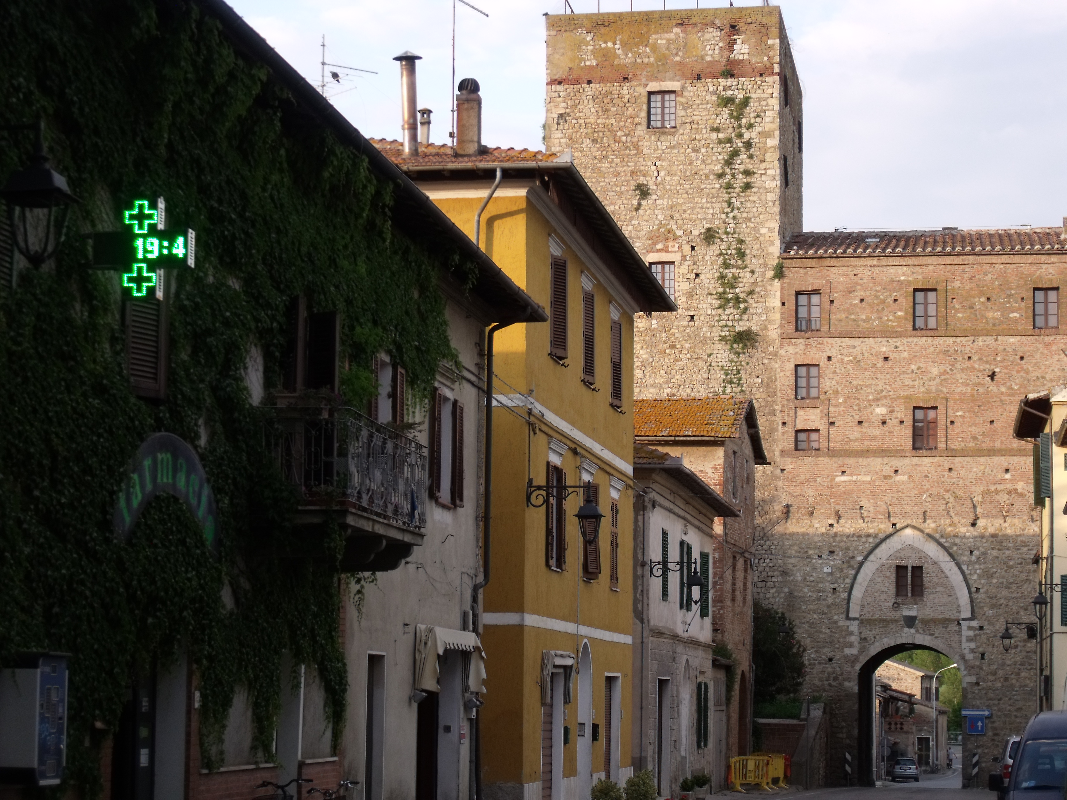 Corso Fagarè and Cassero Senese in Paganico, hamlet of Civitella Paganico, Maremma, Province of Grosseto, Tuscany, Italy